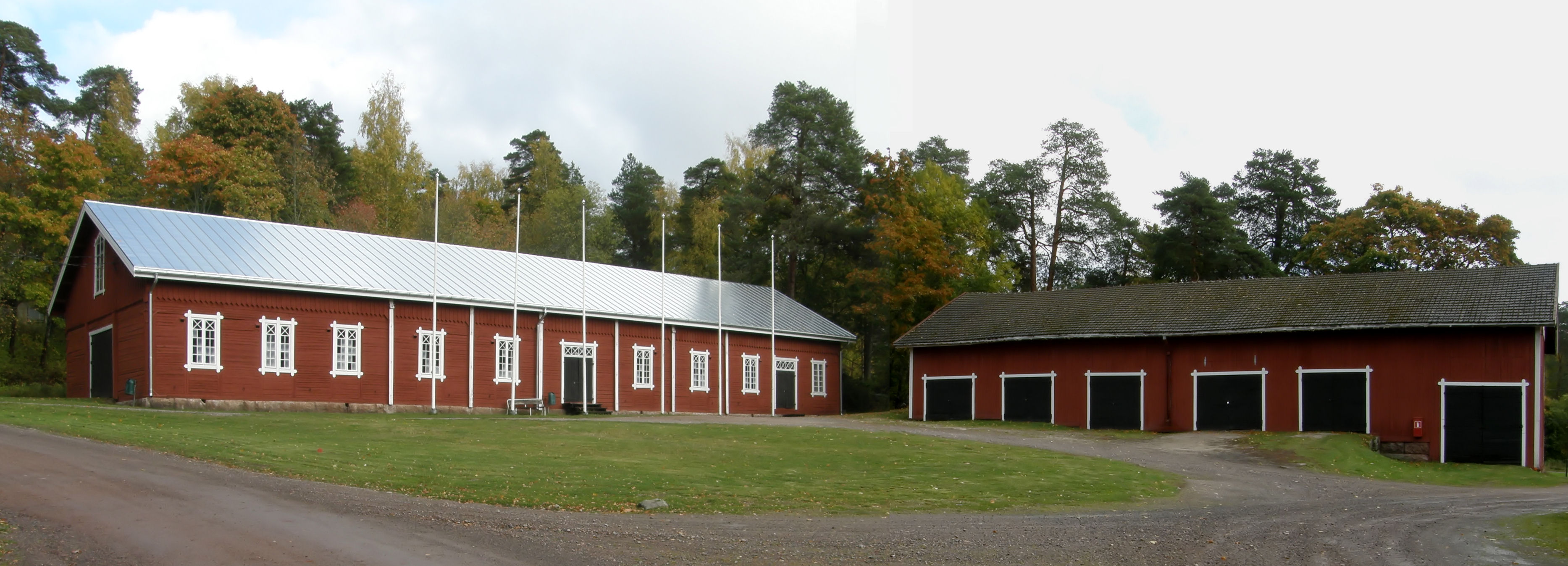 Old market place in Kauttua village in Eura, Finland Used in the first half of 20th century